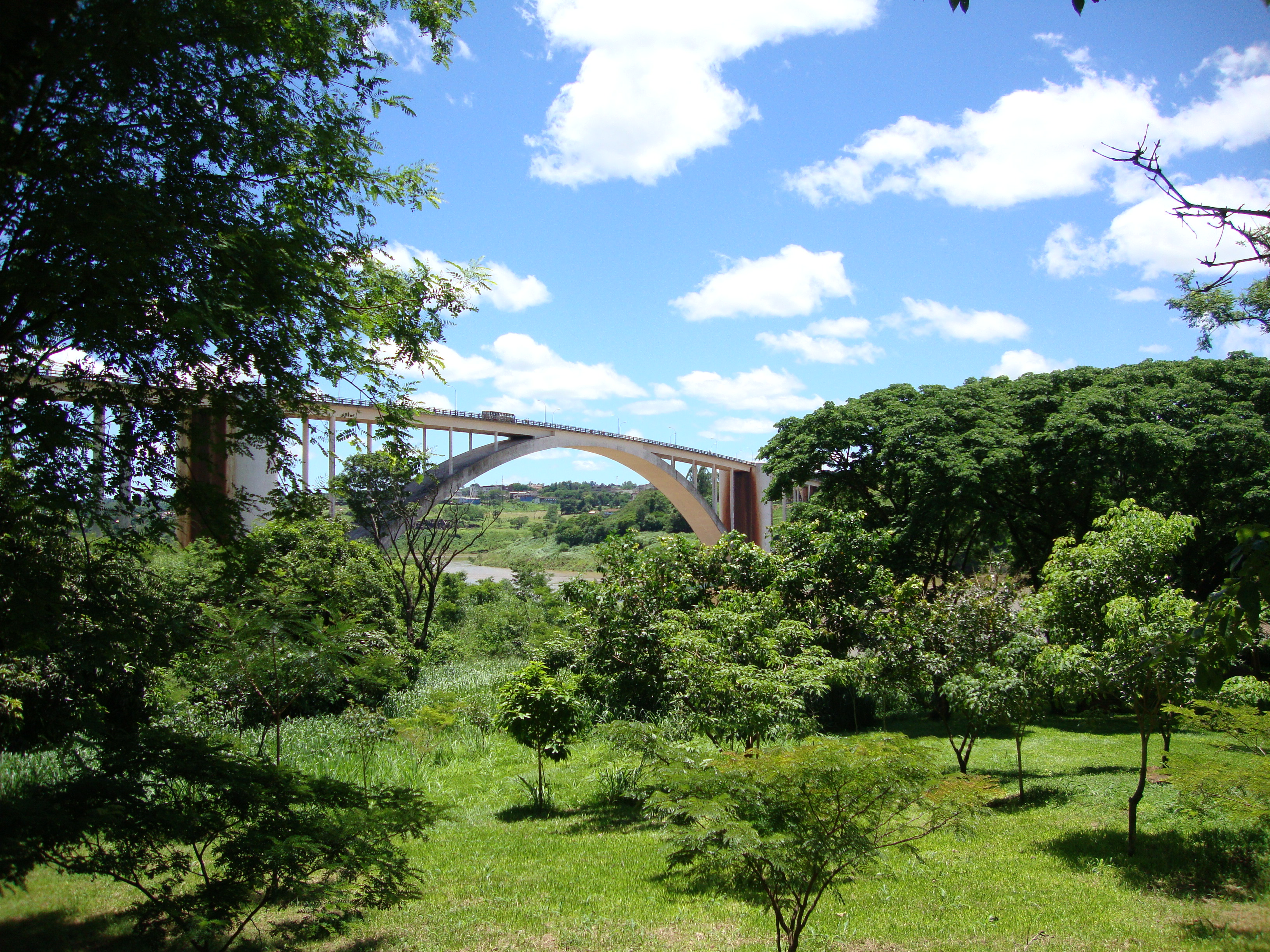 The ´Friendship Bridge´ between Paraguay and Brazil